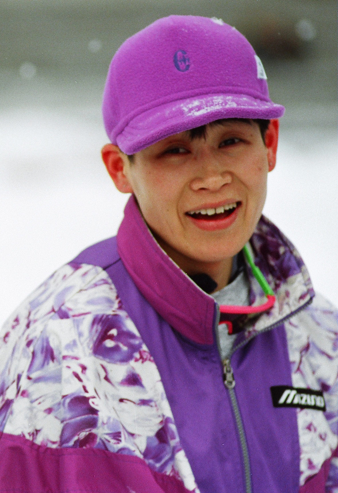 Ye Qiaobo, former Chinese speedskater